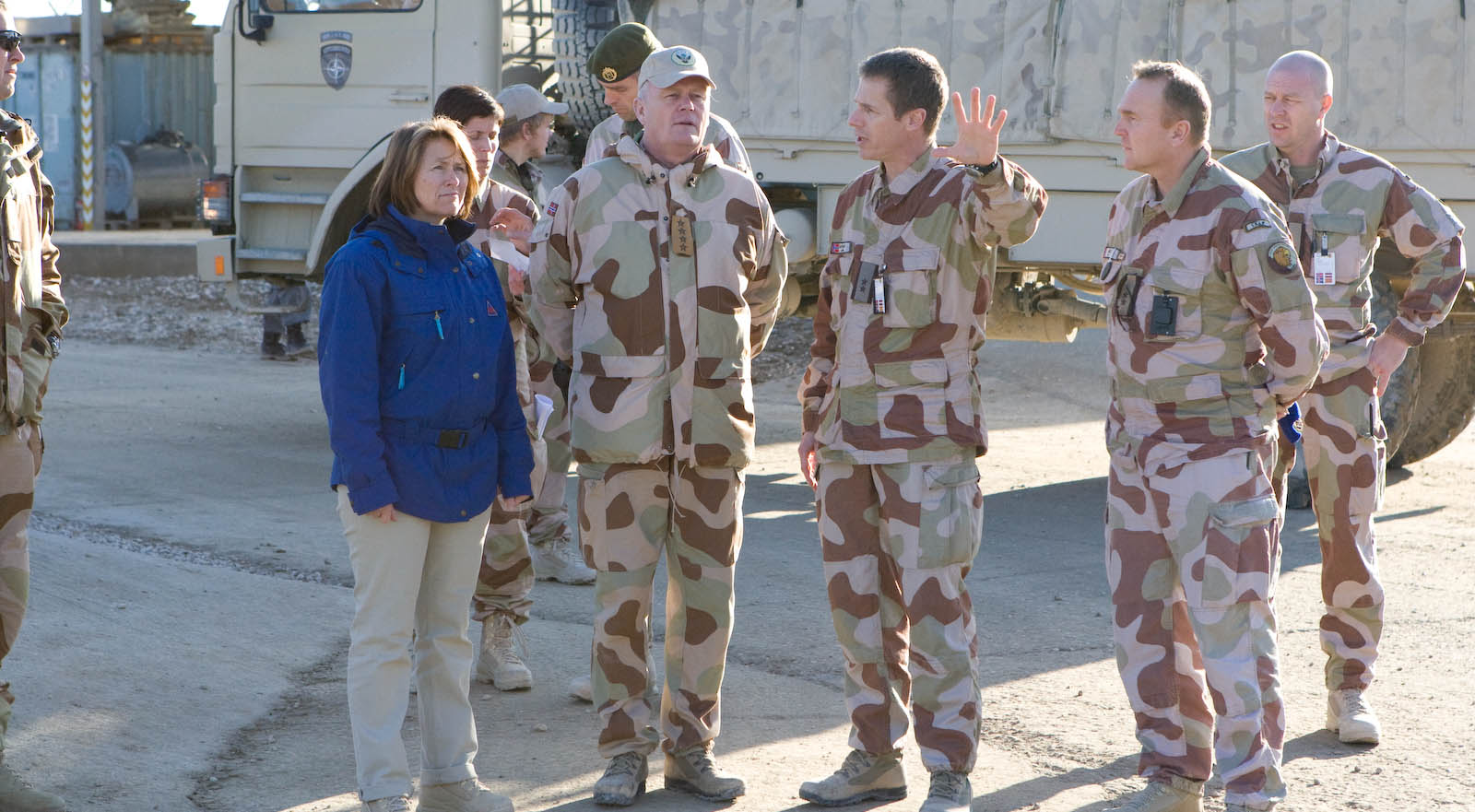 Chief of Staff of the PRT 14 Gerhard Larsen shows up camp Maymana for Defense Minister Grete Faremo and Chief of Defence Harald Sunde